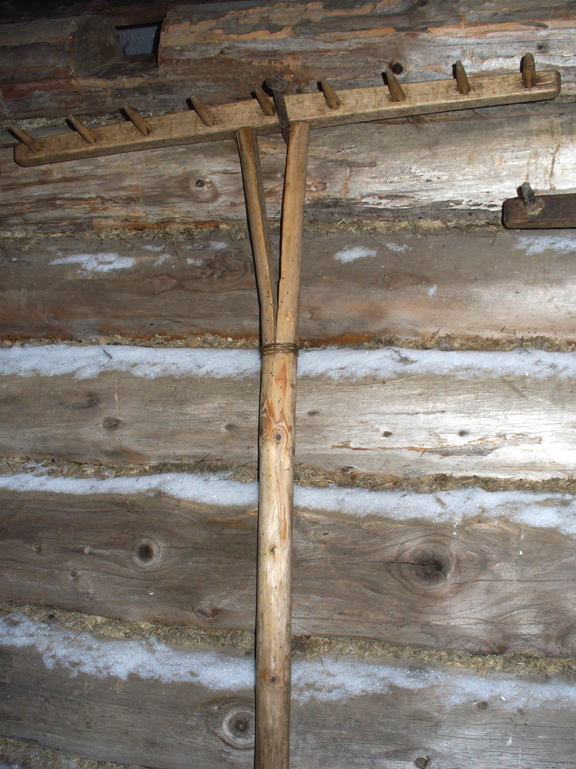 A wooden hand-rake